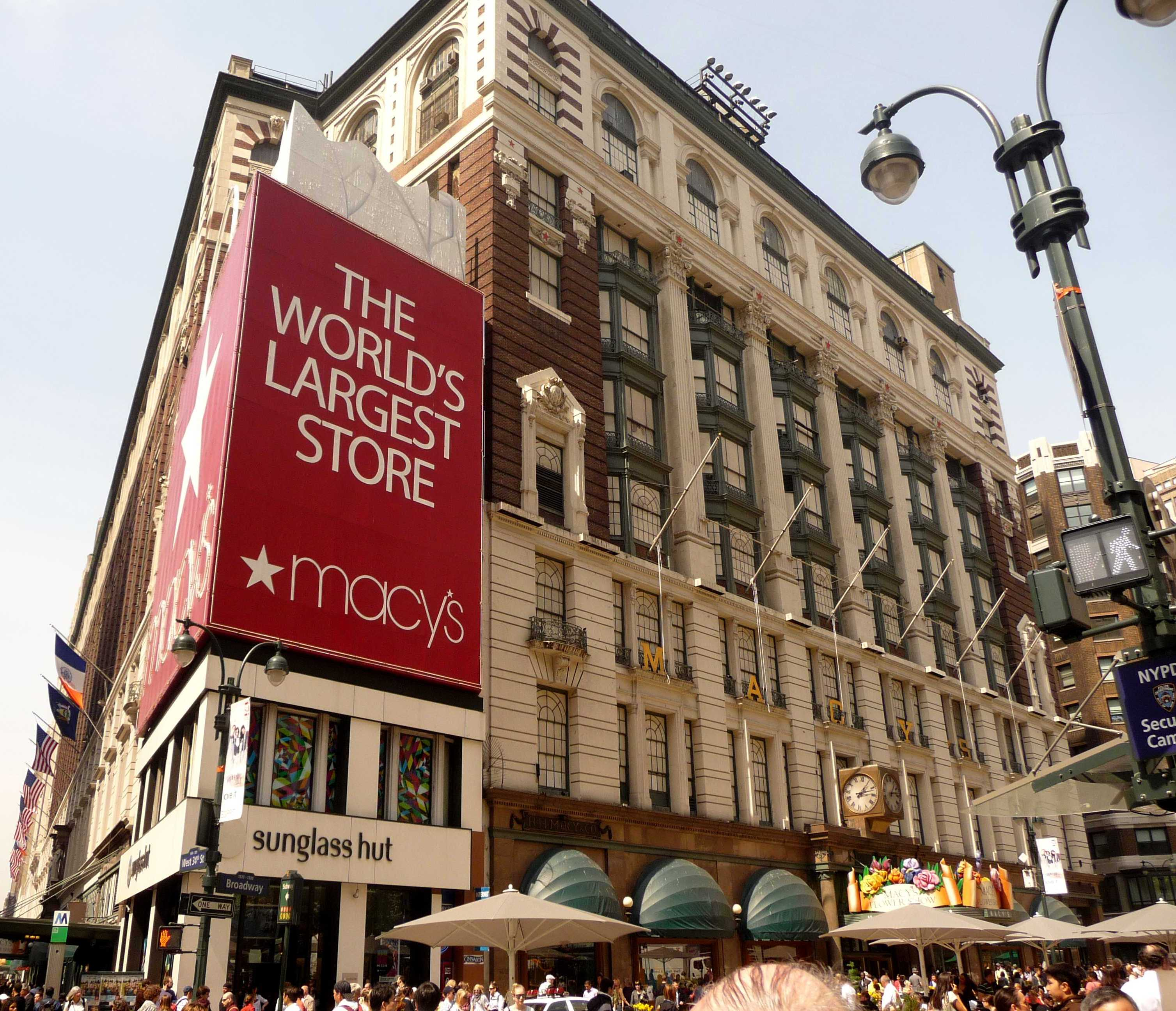 Macy's Department Store in New York City.